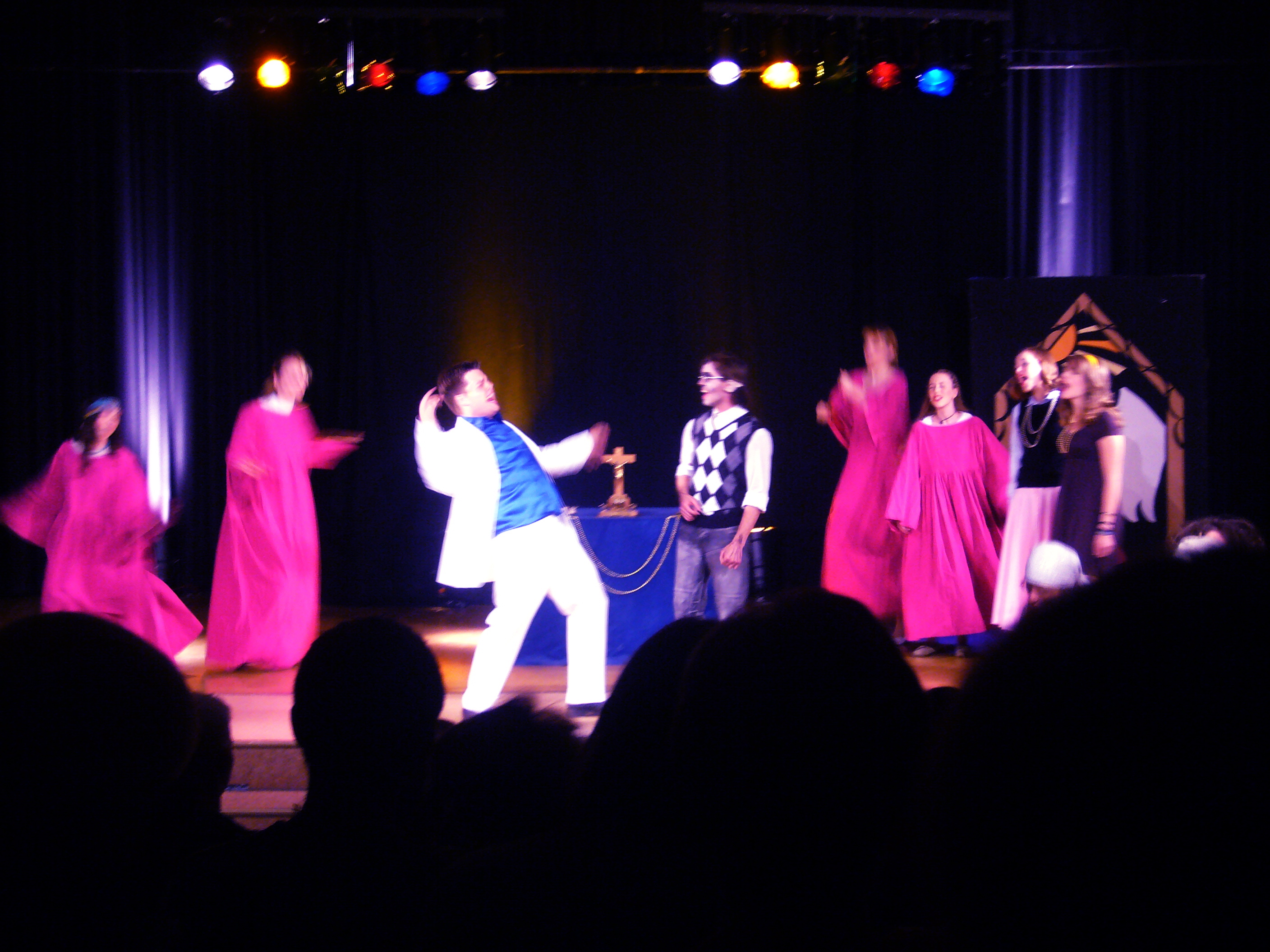 Scene from the Musical Bat Boy. Last Show in Wetzlar, Germany in 27. June 2008